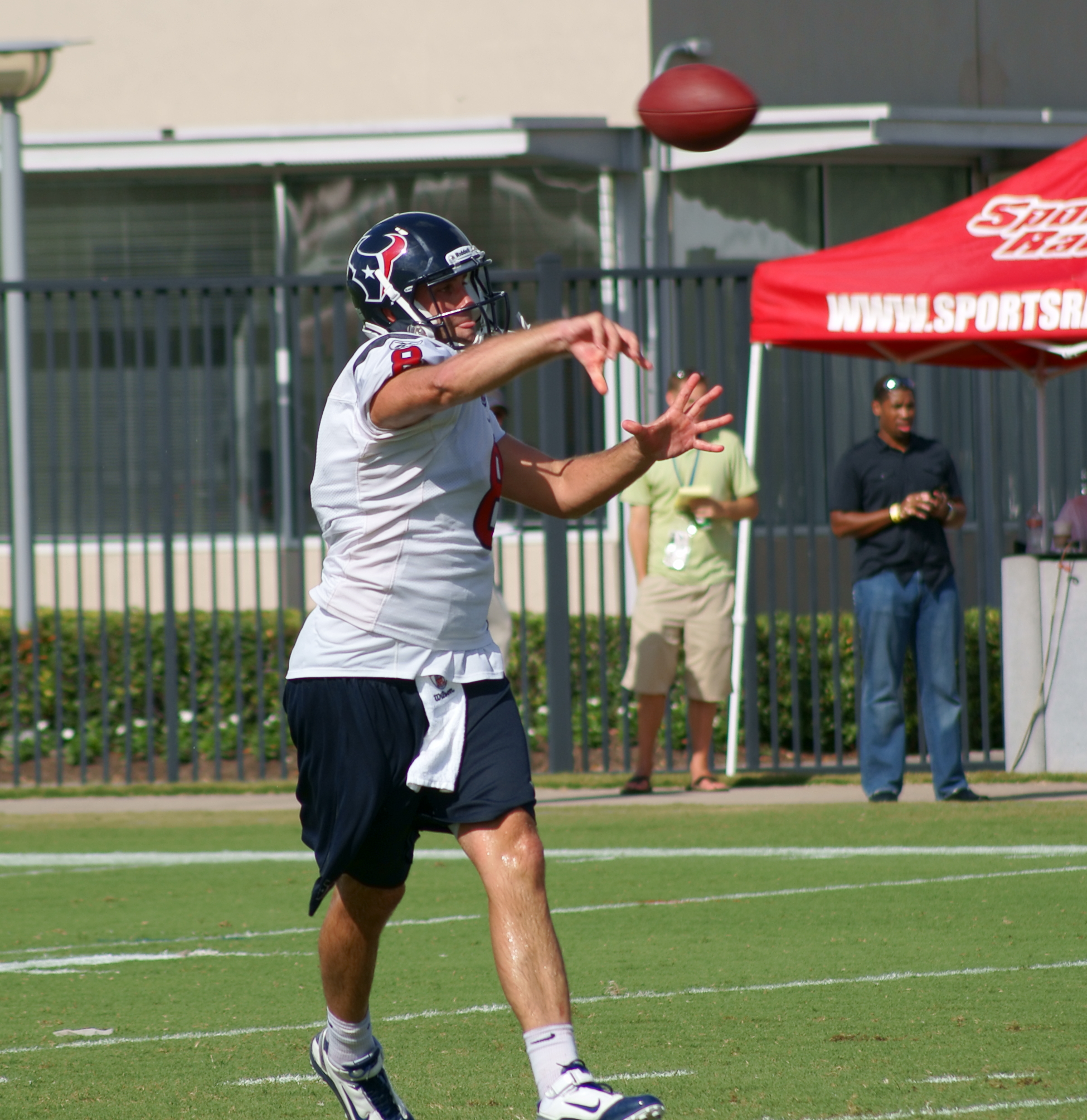 Matt Schaub of the Houston Texans